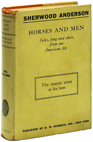 Front cover with dust jacket of Sherwood Anderson's short story collection Horses and Men.